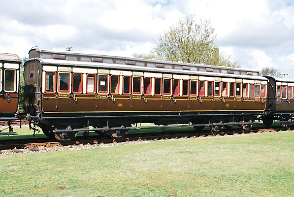 GWR Dean 46' 6" Third No.1941, Diagram C10, Lot 962, built at Swindon 1901. At Didcot Shed, 05/10.